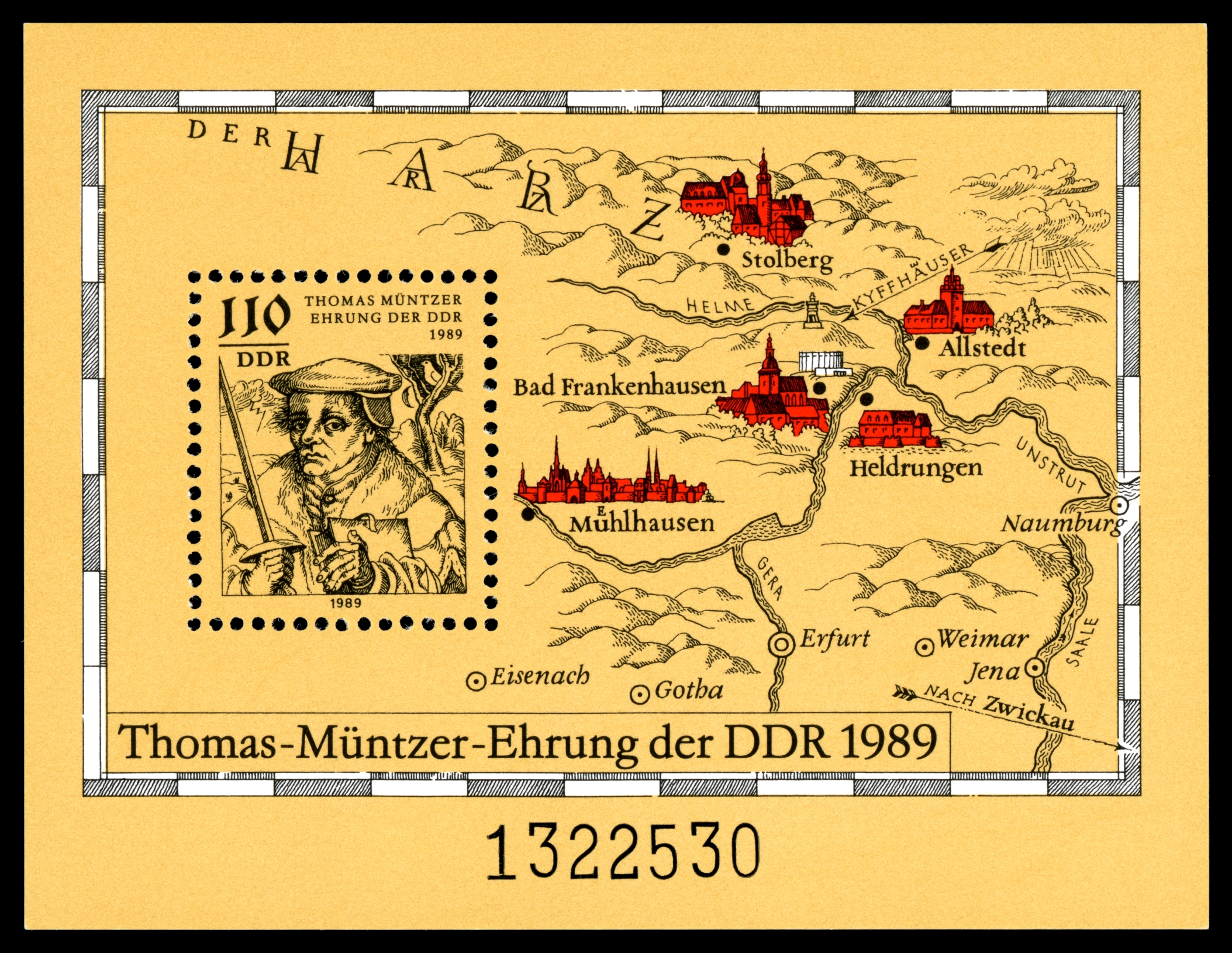 Ausgabepreis: 110 Pfennig First Day of Issue / Erstausgabetag: 21. März 1989 Auflage: 2.100.000 Entwurf: Schmidt Druckverfahren: Offsetdruck Michel-Katalog-Nr: Ländercode-MiNr: Block 97 Licensing This file is most likely NOT in the public domain. It has been marked for review, and will be deleted in due course if the review does not find it to be in the public domain.This file was previously considered to be in the public domain as a German stamp; it is possible that it is in the public domain for other reasons, in which case a new rationale will be applied as part of the review process. See below for the previous rationale. Previous public domain rationale, no longer applicable This stamp is in the public domain in Germany because it was released by the postal administration of the German Democratic Republic or the Soviet occupation zone (Deutschen Post der DDR) whose legal successor is the Federal Republic of Germany. Thus it is an official work according to German copyright law (§ 5 Abs. 1 UrhG).